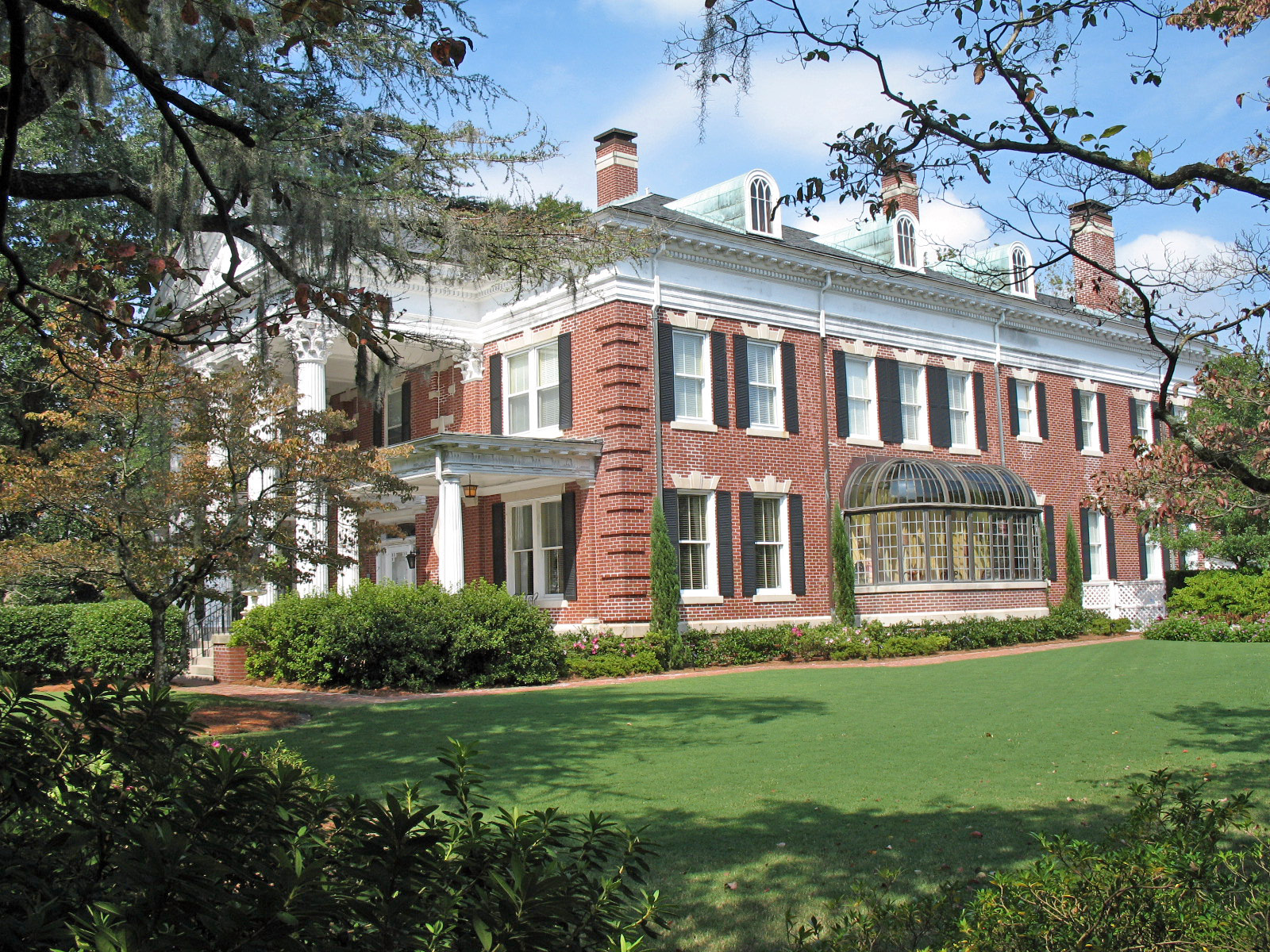 National Register of Historic Places listings in New Hanover County, North Carolina. Kenan House, 1705 Market St, Wilmington, NC (contributing property to the Market Street Mansion District). Photographed September 20, 2009 from the driveway between Kenan House and the Wise Alumni House (at 1713 Market St.).